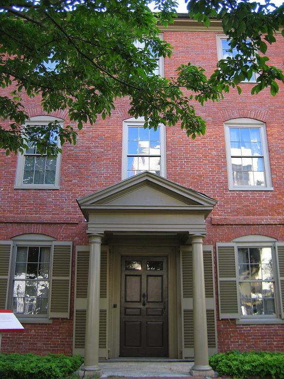 The front entrance to the Wadsworth-Longfellow House in Portland, Maine. Picture was taken with a Canon Power Shot SD450 Digital Elph camera and modified using a Paint Shop program on a laptop computer.